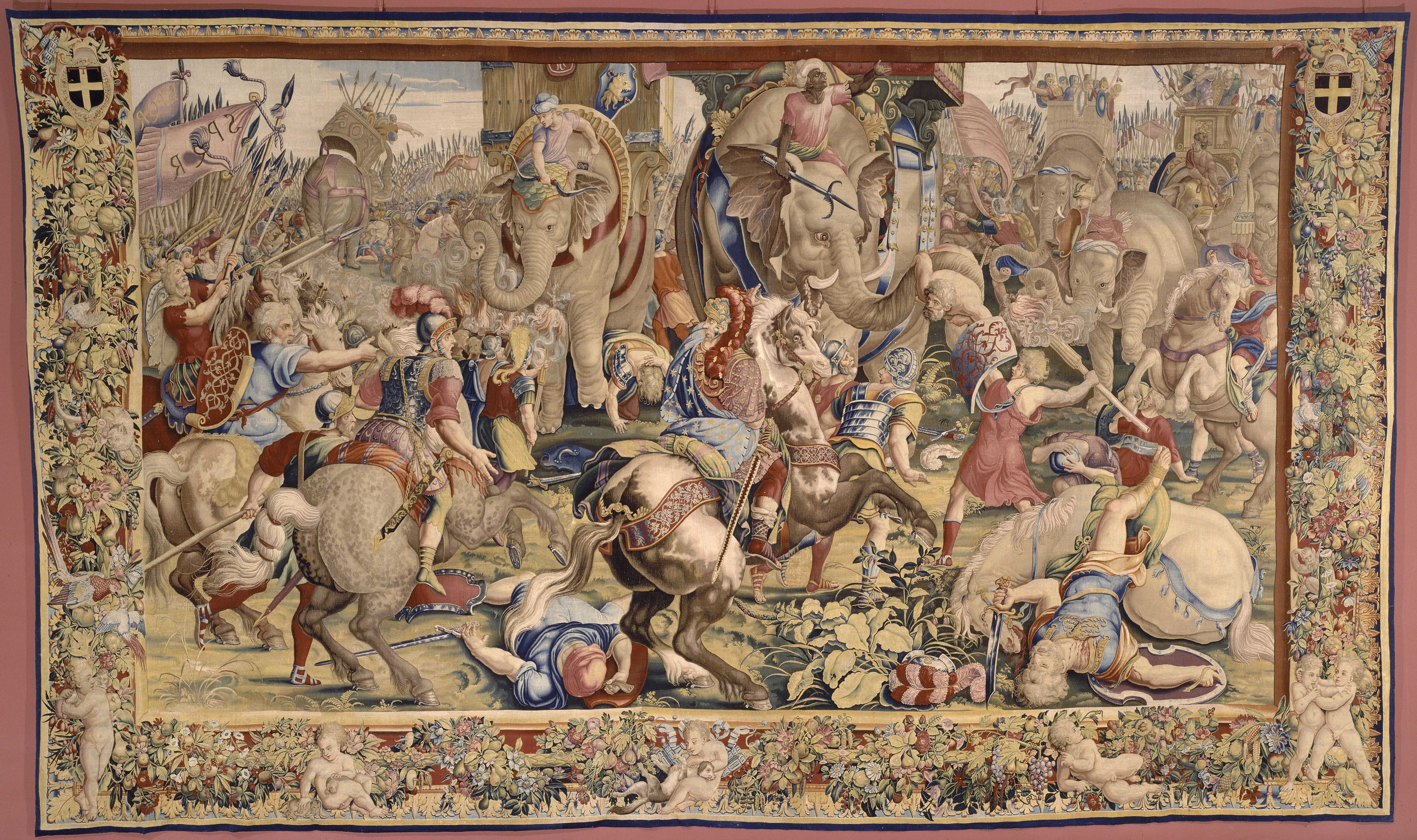 François Bonnemer (carton) after Jules Roman (model) and Francesco Penni: Tenture de Scipion: La Bataille de Zama (1688-1690), Paris, Musée du Louvre (Objets d'art); créated by the manufacture des Gobelins.